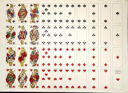 Milanese cards.